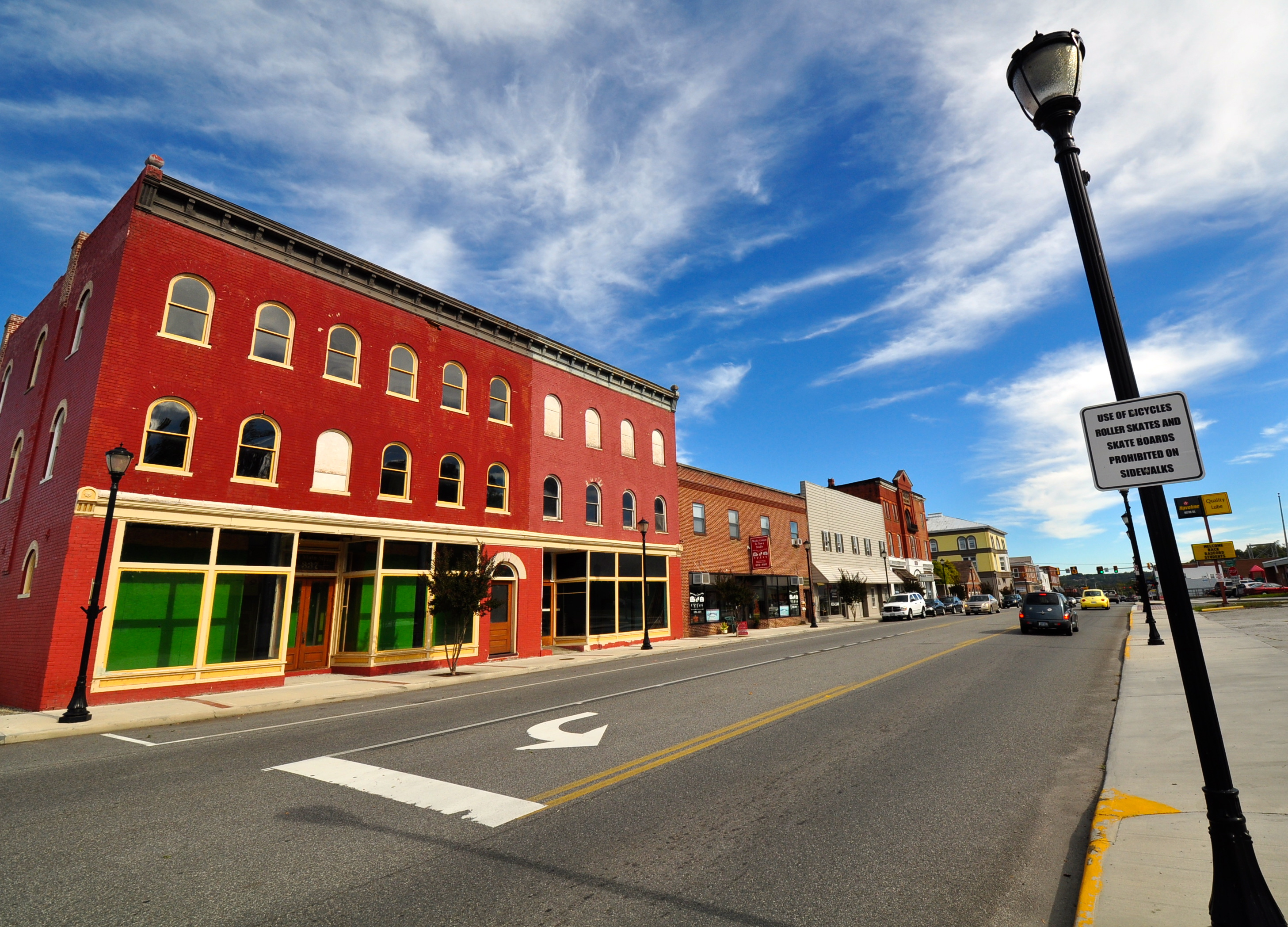 Looking from the 300 block of W. Main Street towards the 100 block.